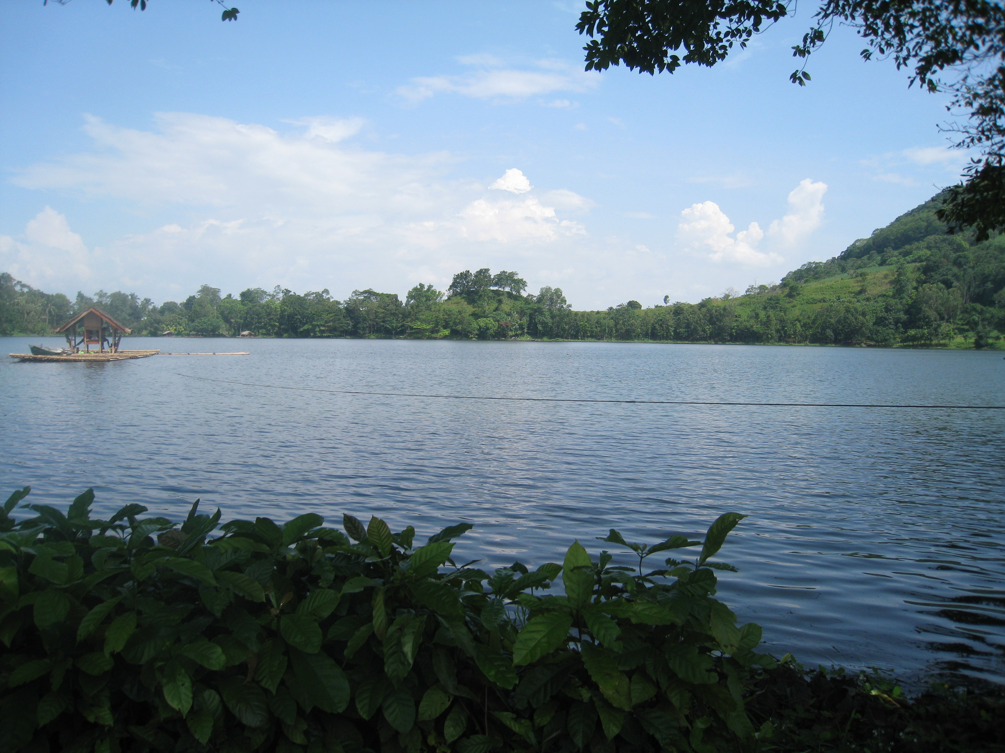 Raft cottages at Lake Apo at Guinoyuran, Valencia City, Province of Bukidnon, Philippines